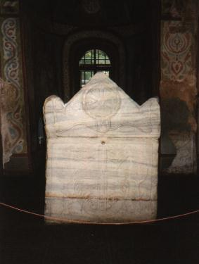 Sarcophagus of Yaroslav the Wise. i took this photo